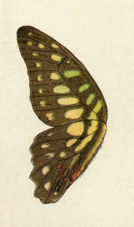 Graphium arycles